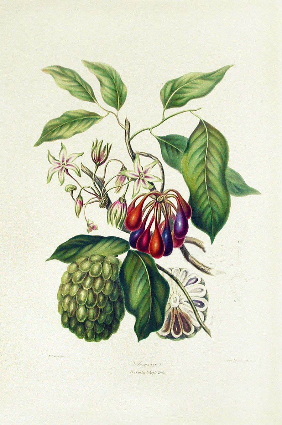 The Custard Apple Tribe, Annonaceae